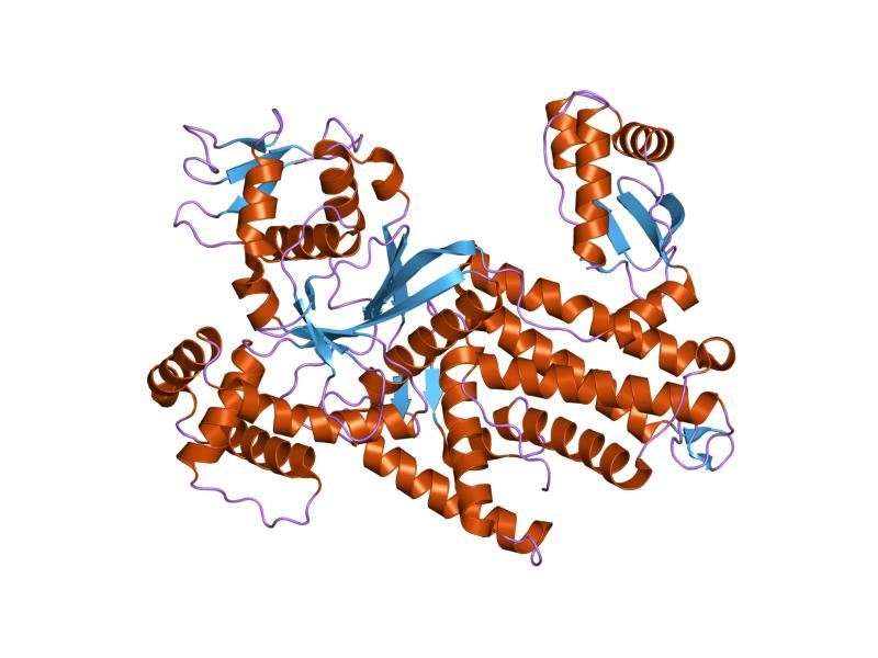 Cartoon representation of the molecular structure of protein registered with 1iq0 code.